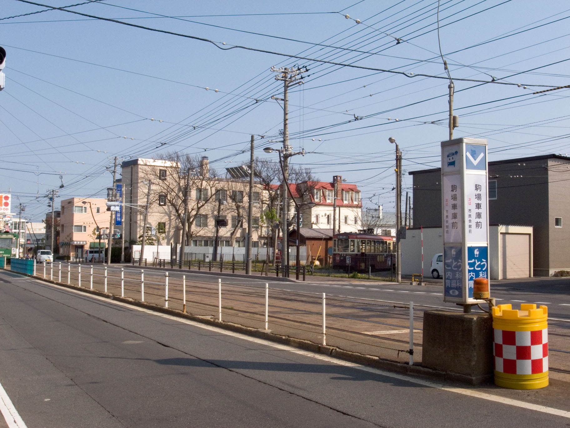 Komaba-Shako Mae station in Hakodate tram, Hokkaido, Japan